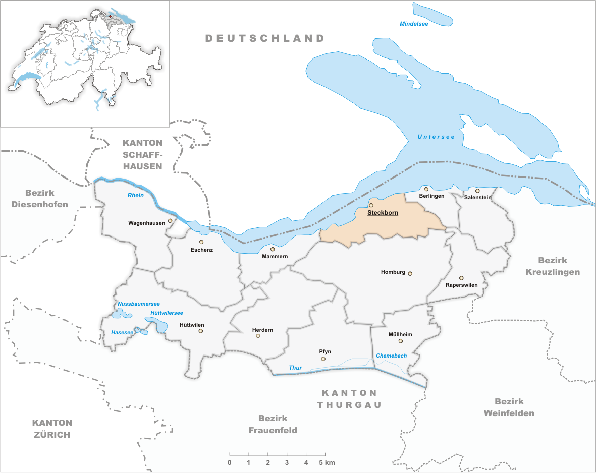 Municipality Steckborn